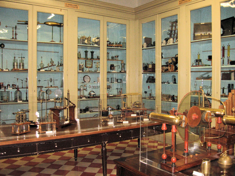 Gabinetto di Fisica